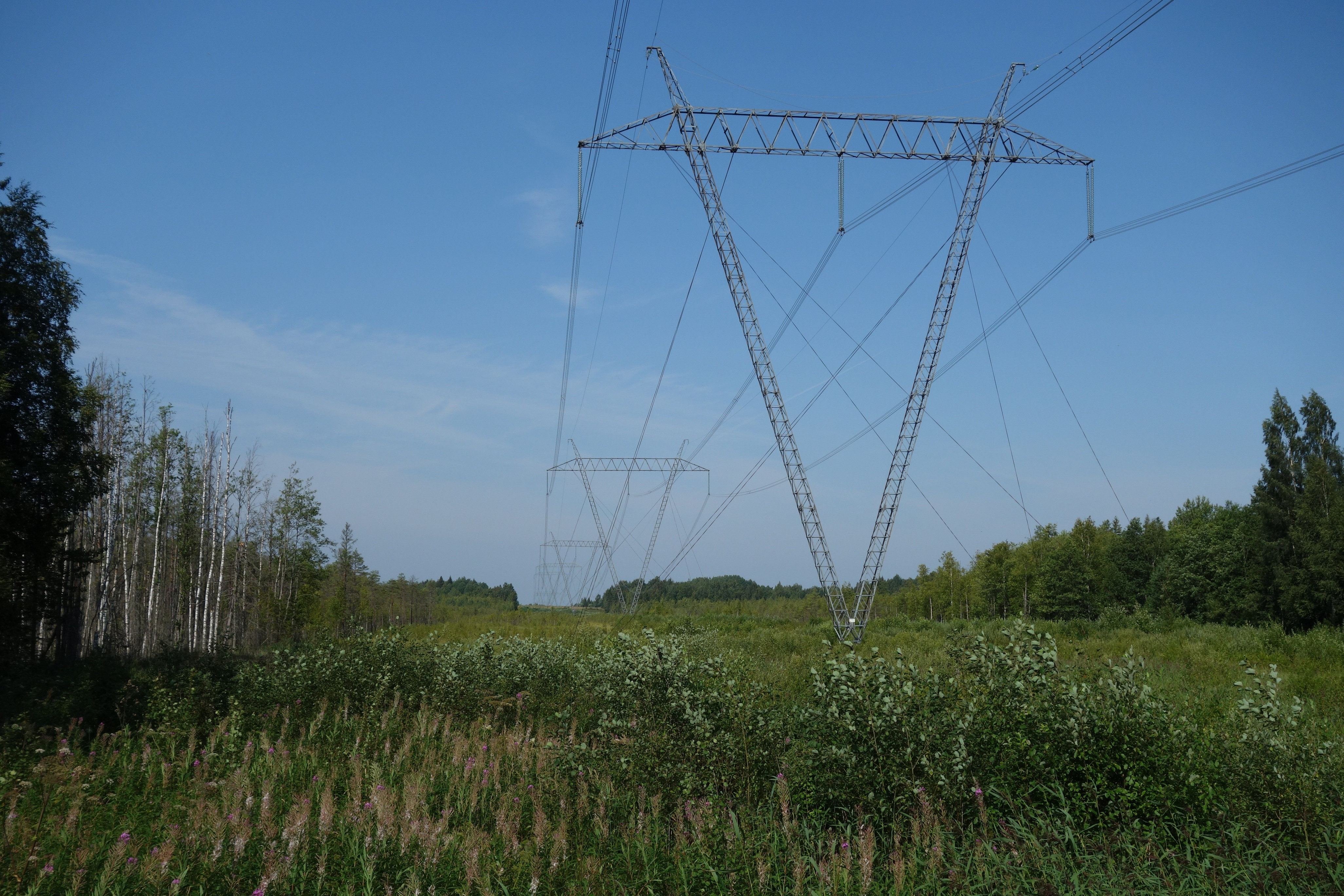 Guyed suspension pylons of 750 kV power line (Kalinin NPP–Leningrad substation) in Zhelezkovo (south of Borovichi), Borovichsky District, Novgorod Oblast, Russia.